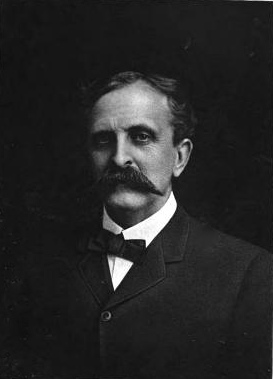 Clarence W. Hobbs, president of the Hobbs Manufacturing Company. Objections from the firm held up the Buffalo nickel for months.